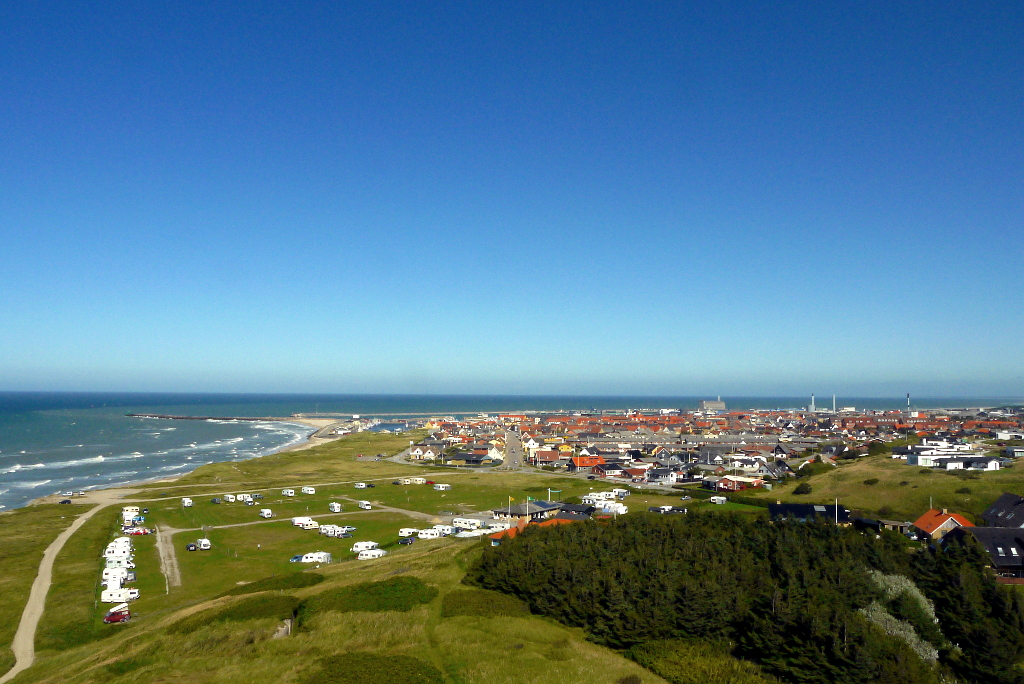 View over Hirtshals from Hirtshals lighthouse